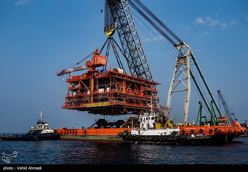 Installation of the third platform of Phase 14 South Pars gas field